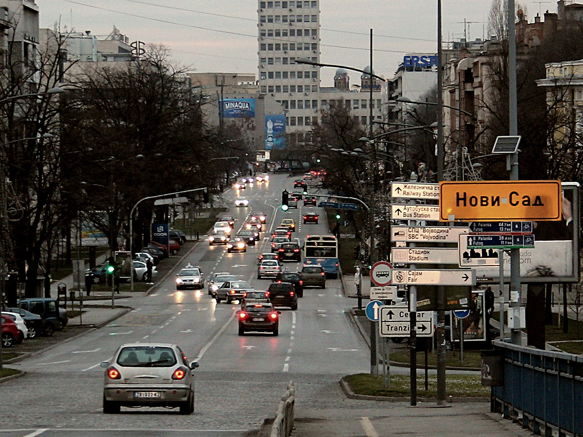 Entrance to Novi Sad (Republic of Serbia) from Varadin Bridge. Српски (ћирилица): Улазак у Нови Сад са Варадинског моста